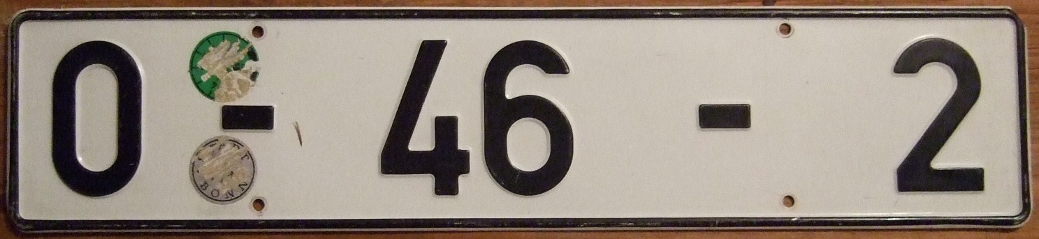 West Germany diplomatic plate from the West German capital of Bonn issued to the Gabon Embassy. "46" denotes Gabon Embassy and "2" the serial number, probably belonging to Gabon's deputy ambassador. Embassy plates all have an "O" prefix. This plate is non-reflective.